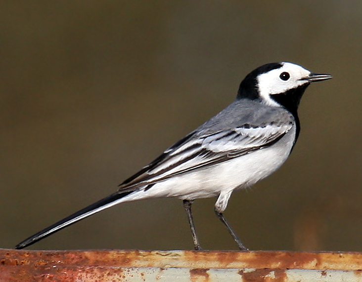 White Wagtail